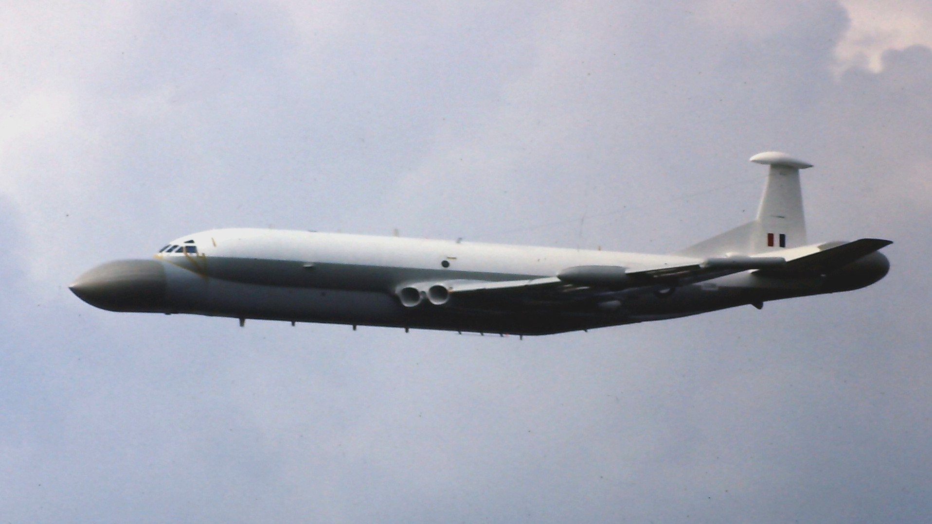 Hawker Siddeley Nimrod AEW3 serial number XZ286 at the 1980 Farnborough Air Show